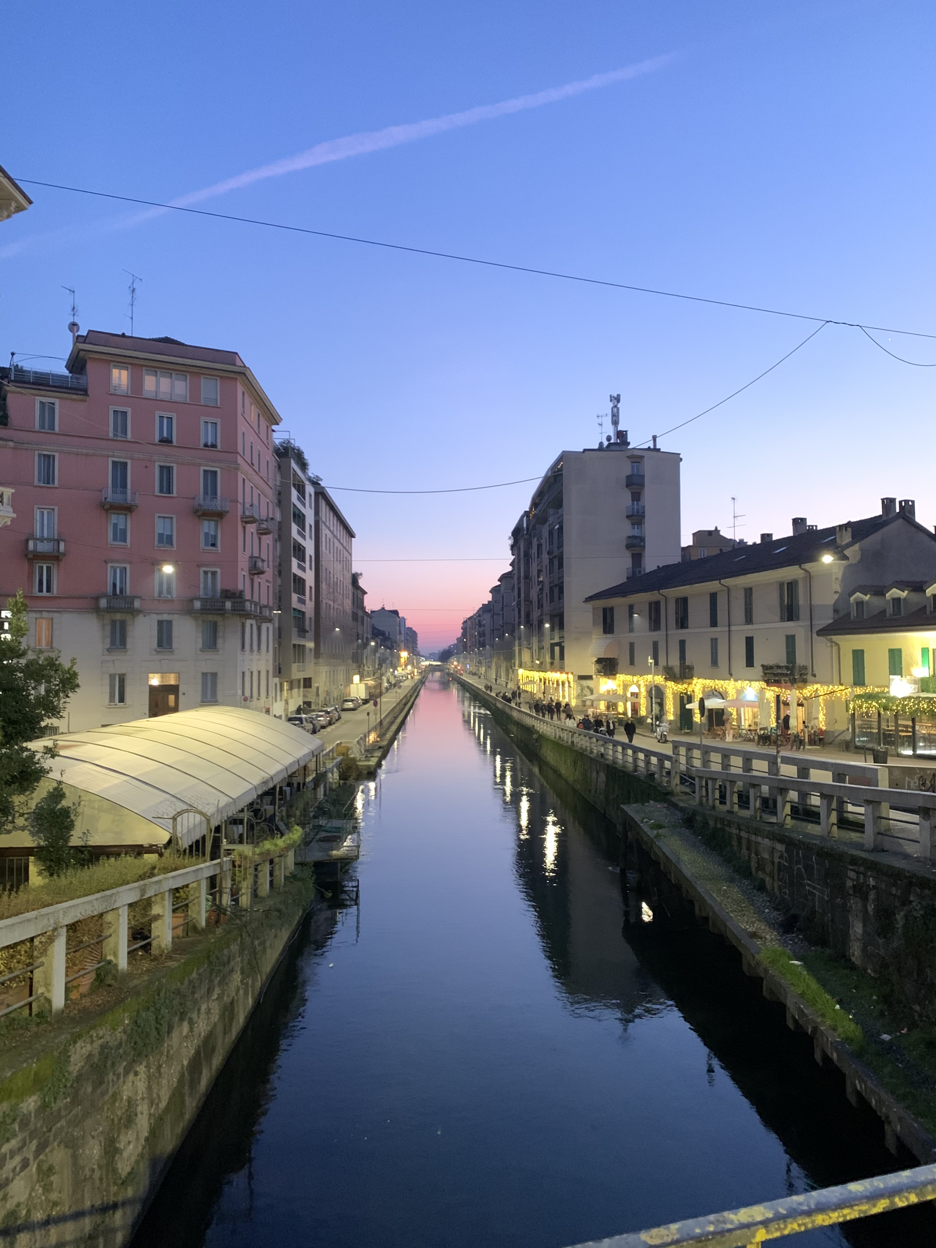 The Naviglio Pavese, a canal connecting Milan to Pavia e and the Ticino river, is here at its beginning in Milan.